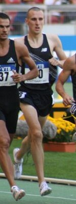 World athletics final Stuttgart 2007 1500m Andrew Baddeley